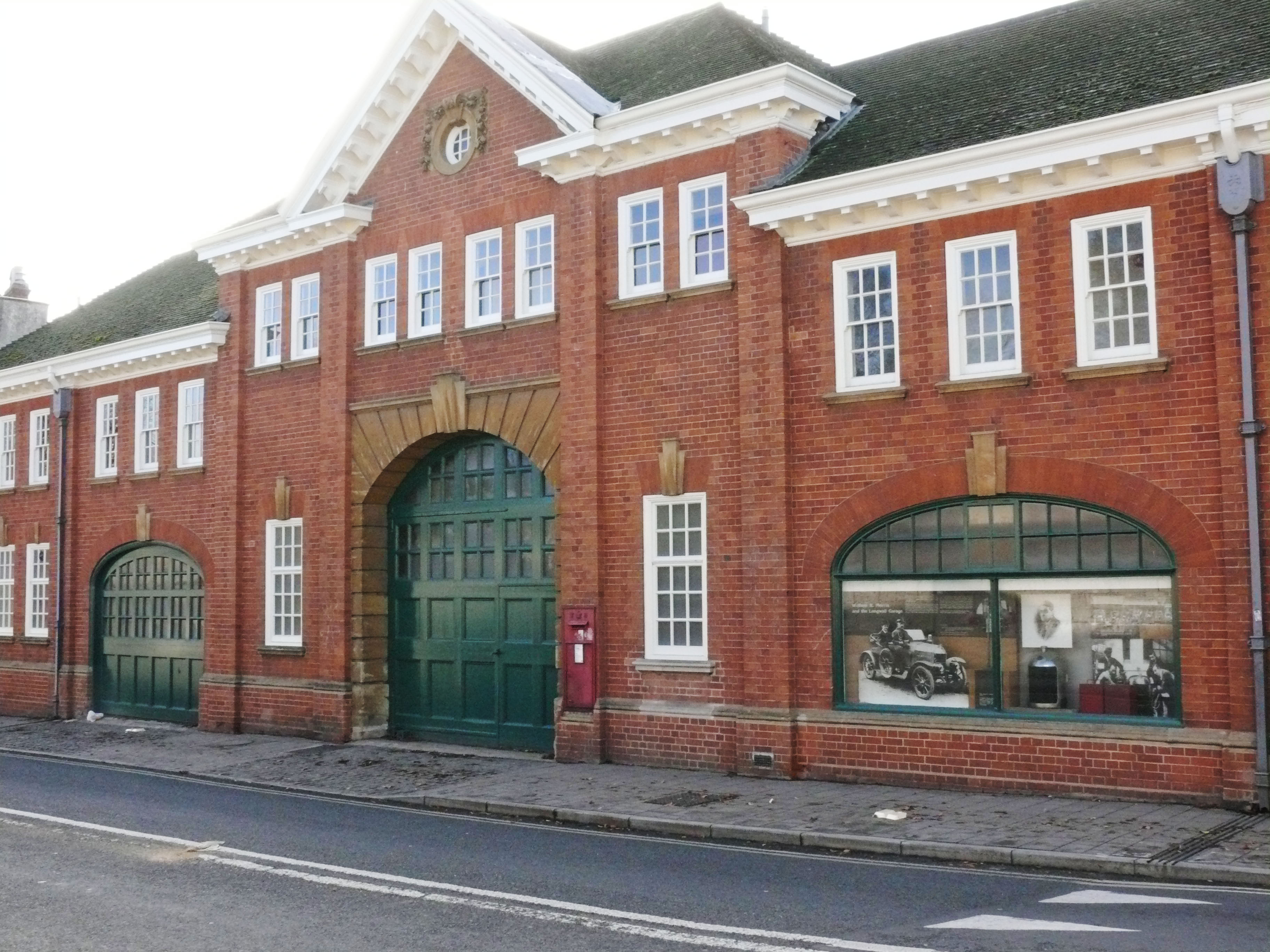 The William Morris garage on Longwall Street, Oxford.